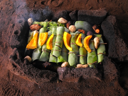 preparation of the umu (Easter Island)